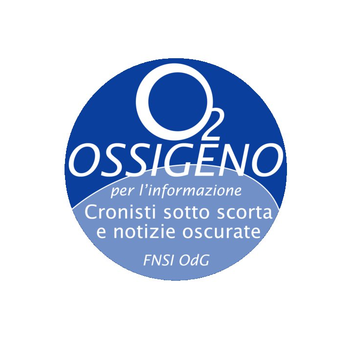 Ossigeno logo